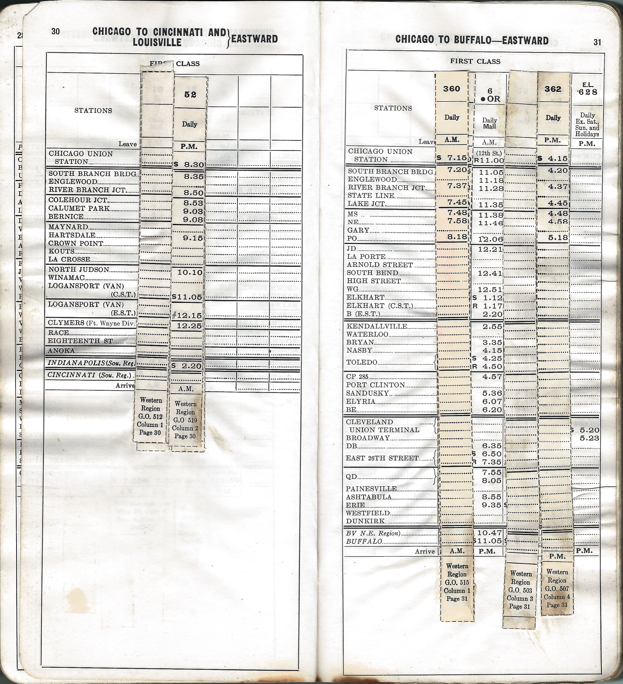 Penn Central Employee Timetable, Western Region No.5 showing frequent train annulments and retimings by General Order in the bankruptcy era.